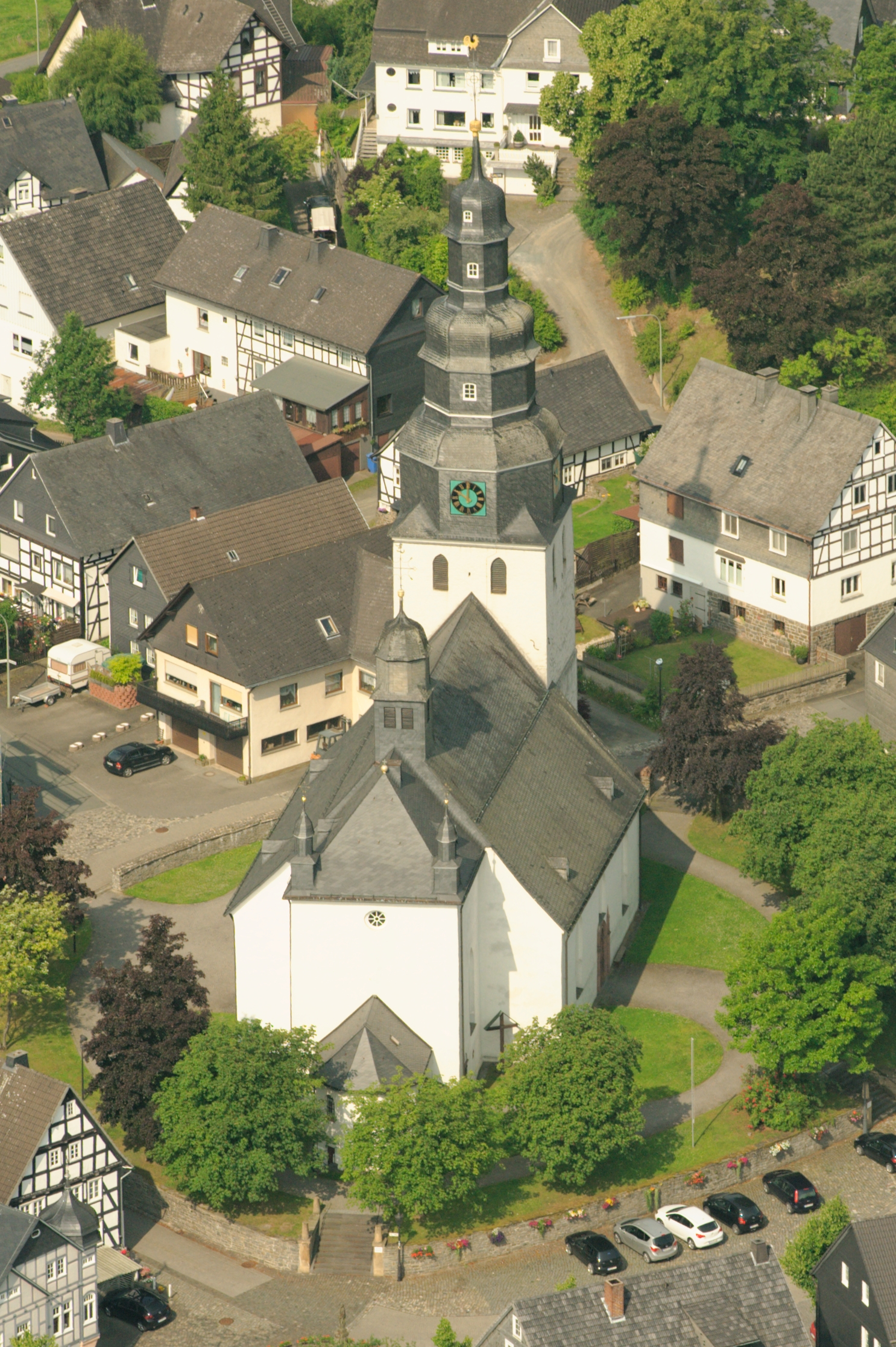 Fotoflug Sauerland-Ost, Hallenberg, St.-Heribert-Kirche The making of this document was supported by the Community-Budget of Wikimedia Germany.